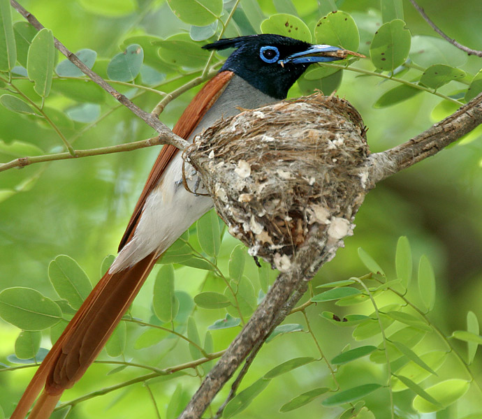 Asian Paradise-flycatcher or Common Paradise-flycatcher Terpsiphone paradisi at Ananthagiri Hills, in Rangareddy district of Andhra Pradesh, India.